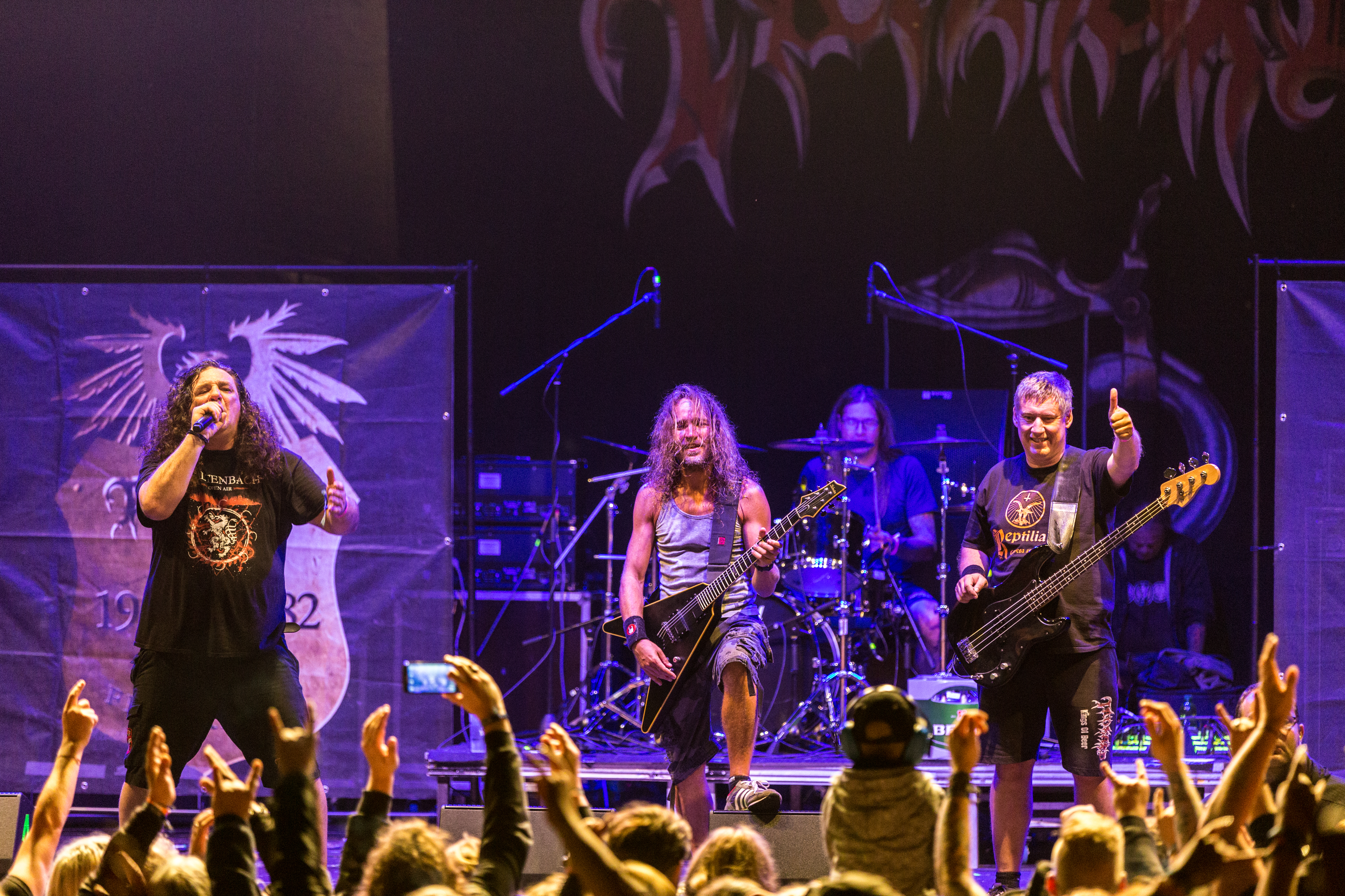 The German thrash metal band Tankard at the Metal Frenzy 2017 in Gardelegen/Germany.